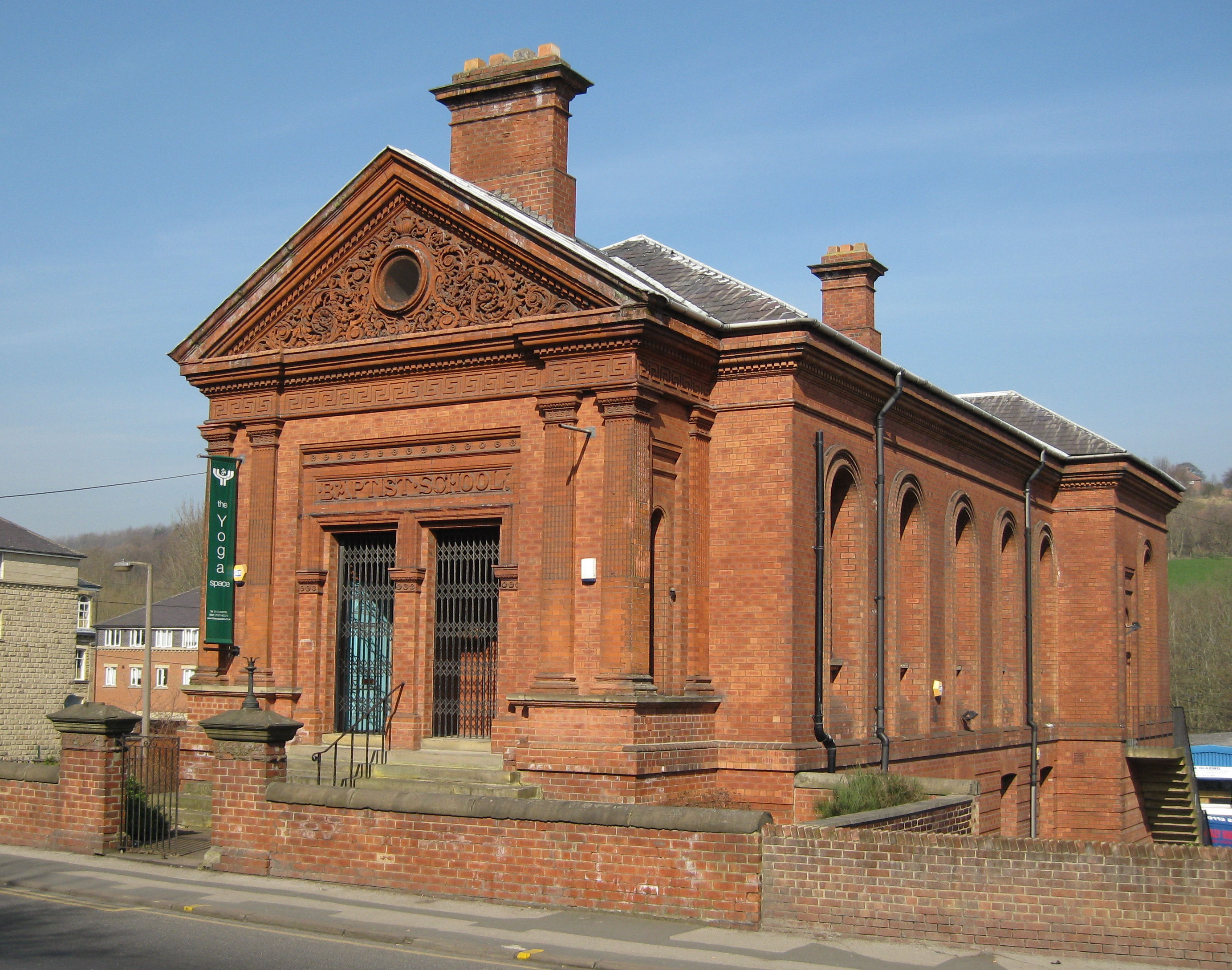 Former Baptist School, Meanwood Road, Leeds LS7 2JF. Grade II listed building, built about 1886